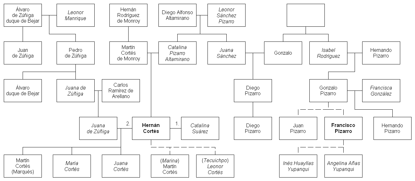 Genealogy of Hernán Cortés and Franscisco Pizarro. Illegitimate offspings connected by dashed lines